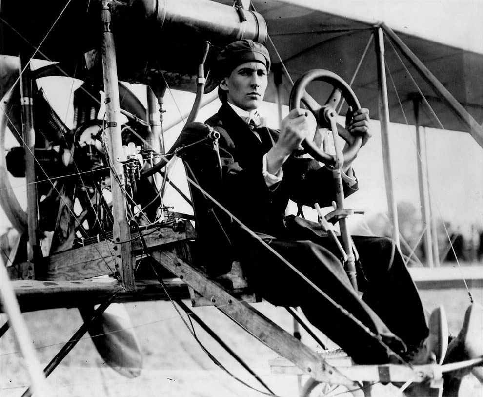 Aviation pioneer John Alexander Douglas McCurdy at the controls of an aircraft. The City of Toronto archival notation reads: "Item consists of one photograph of a man sitting in an airplane. Information provided by a researcher indicates that the man is probably J.A.D. McCurdy in a bi-plane with 7-cylinder Gnome rotary engine, and that the event is probably either the Aviation Meet held at Donlands Farm, Todmorden Mills, August 3-5, 1911, or the Aviation Meet, Hamilton, July 27-29, 1911."